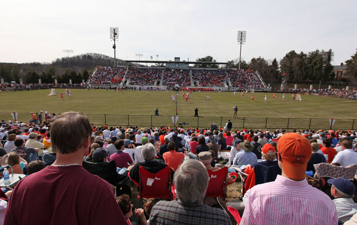 No. 1 Syracuse and No. 2 Virginia meet in men's lacrosse at Klöckner Stadium on March 7, 2010. Virginia won the game, 11-10.